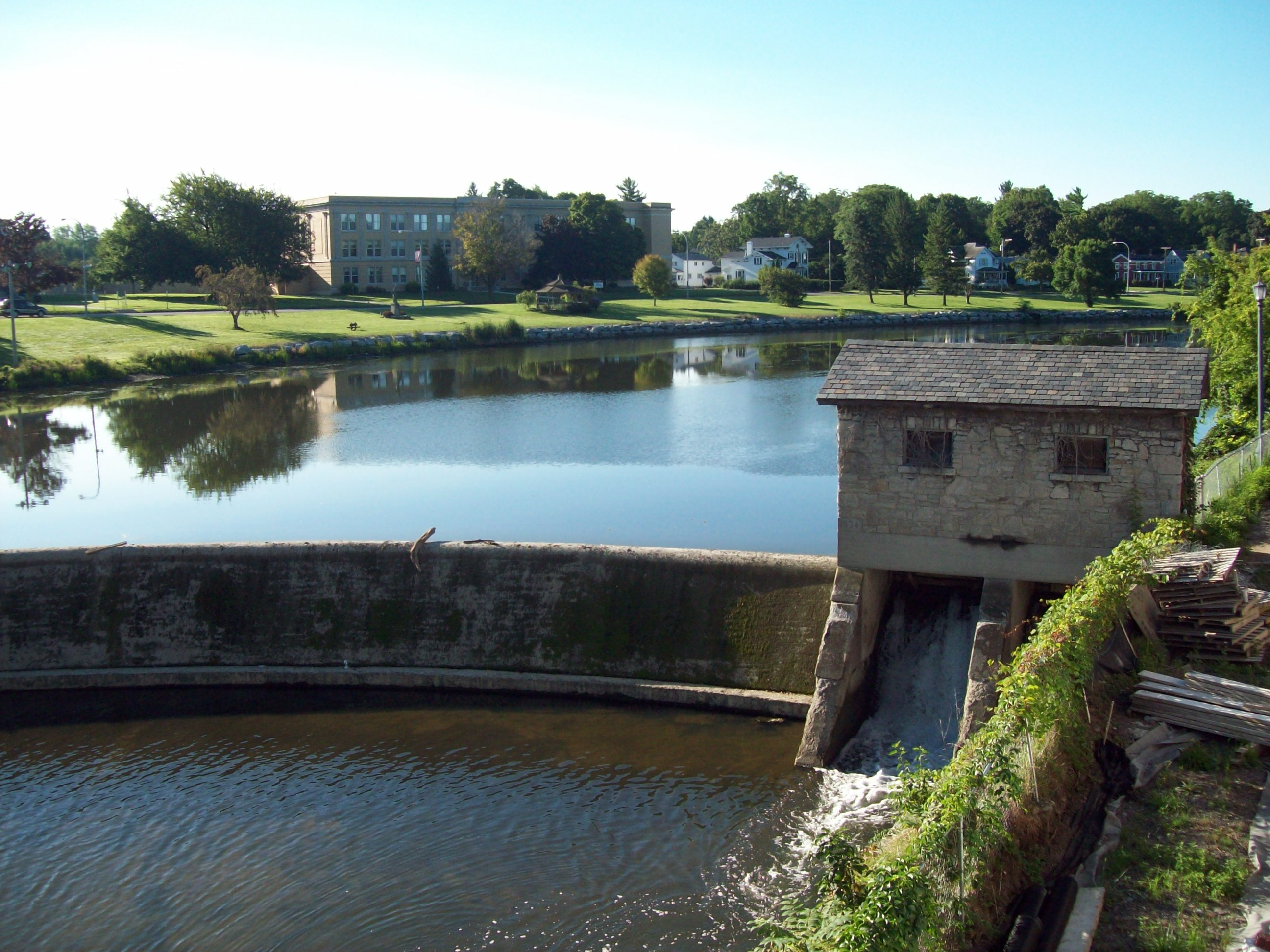 Oatka Creek, Le Roy NY, August 2010